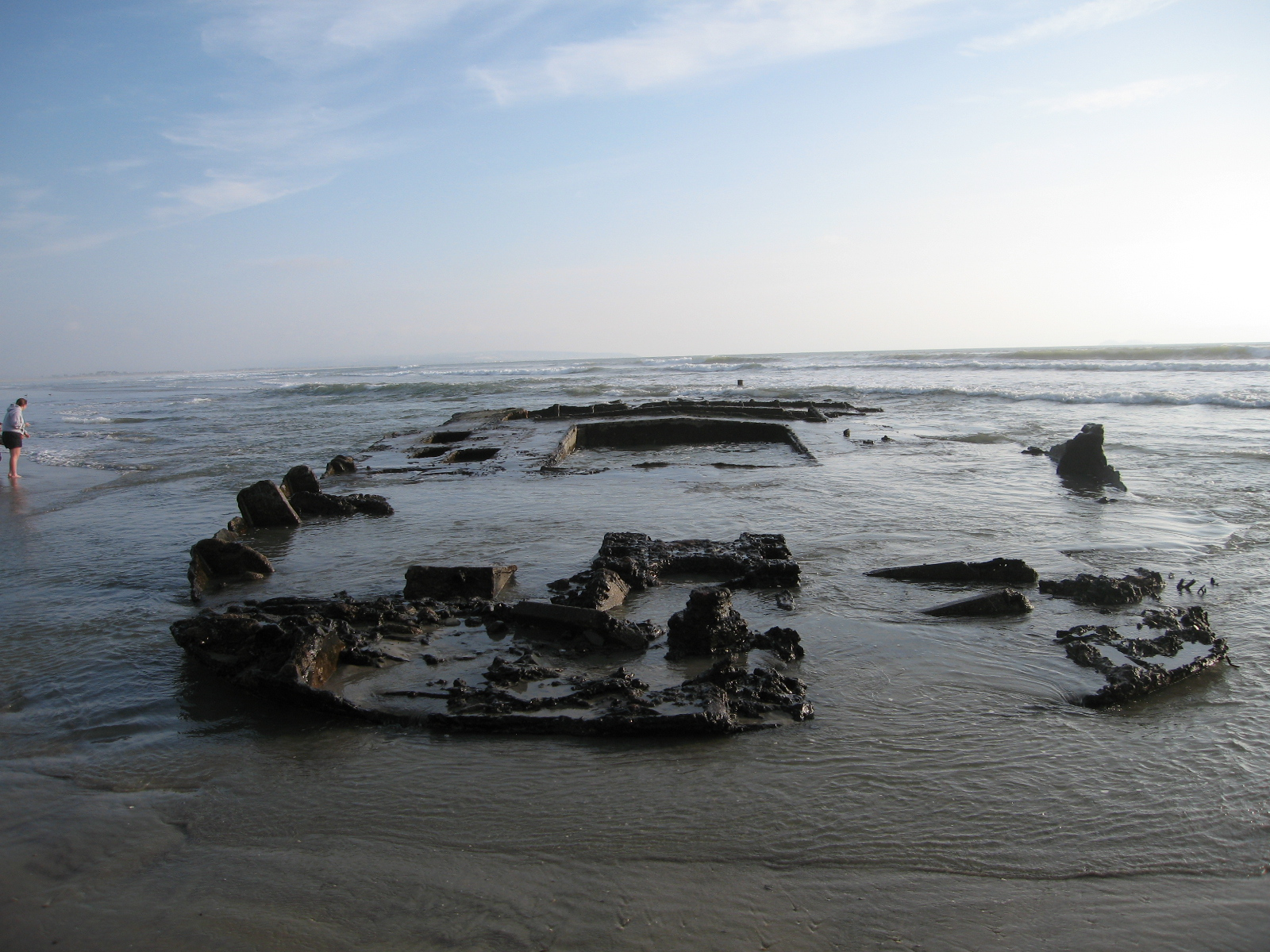 Photos taken at low-tide on 1/30/2010 of the wreck of the SS Monte Carlo near Coronado Shores, Coronado, California. The Monte Carlo was a 300 ft concrete-hulled ship originally launched as the McKittrick in 1921 from Wilmington NC. In 1936, the ship was anchored 3 miles of the coast of Point Loma and served as a gambling and prostitution ship, avoiding local laws as it was in international waters. On December 31, 1936, a storm broke the anchor lines, and the ship foundered near the shore and was abandoned by its owners (supposedly, the mob). It's usually buried in the sand, but occasionally turns up in low tides after storms.